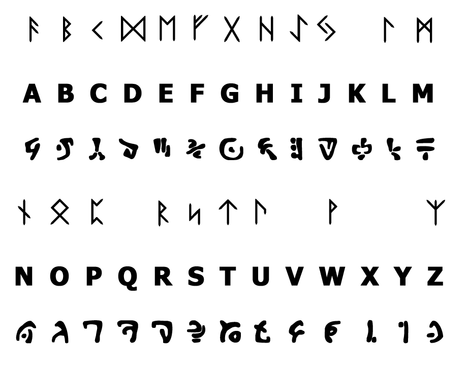 Blood Script and Elder Writings, two fictional alphabets from Legacy of Kain series. The Blood Script is based on Old Futhark runes. Elder Writings are essentially the free Lovecraft's Diary font, designed by Blambot Comic Fonts and Lettering Company.